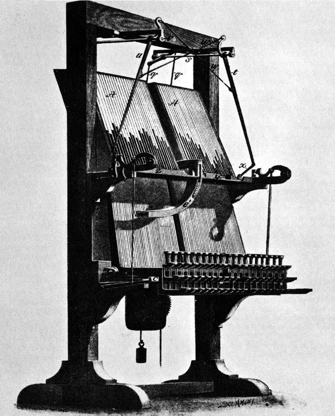 Setting machine invented by William Church (inventor)